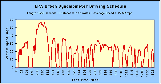 The U.S. Urban Dynamometer Driving Schedule (UDDS) is defined in the US Code of Federal Regulations, CFR 40, 86, App. I, and is also known as the FTP-72 (Federal Test Procedure) cycle or LA-4 cycle. The cycle simulates an urban route of 7.5 mi (12.07 km) with frequent stops. The maximum speed is 56.7 mph (91.2 km/h) and the average speed is 19.6 mph (31.5 km/h). The same cycle is known in Sweden as the A10 or CVS (Constant Volume Sampler) and in Australia as the ADR 27 (Australian Design Rules). See also: US 40 CFR 86 App. I